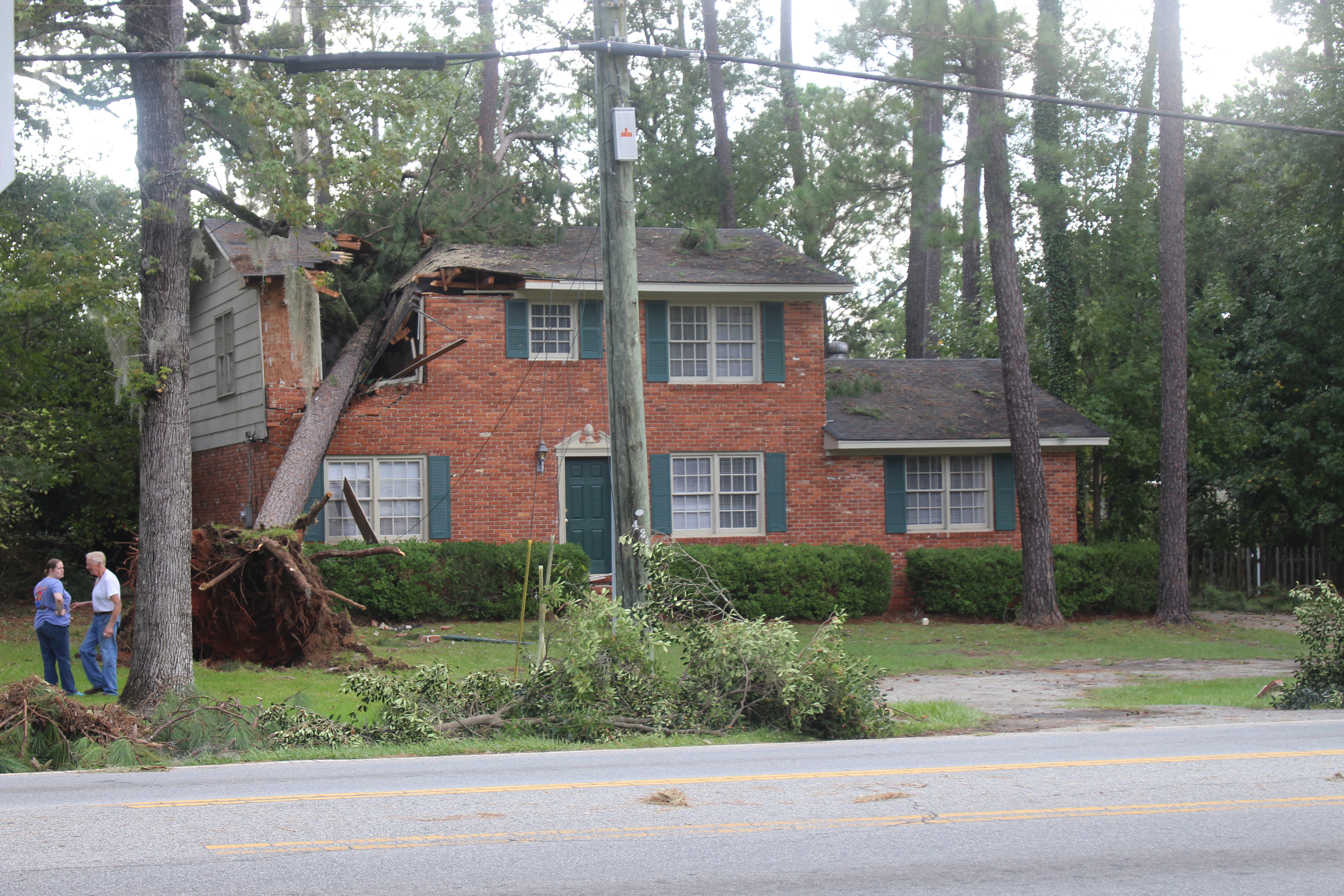 Tree on house, Hurricane Hermine, Valdosta, Lowndes County, Georgia